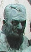 detail of Image:Polio_Hall_of_Fame.jpg showing the bust of John Franklin Enders